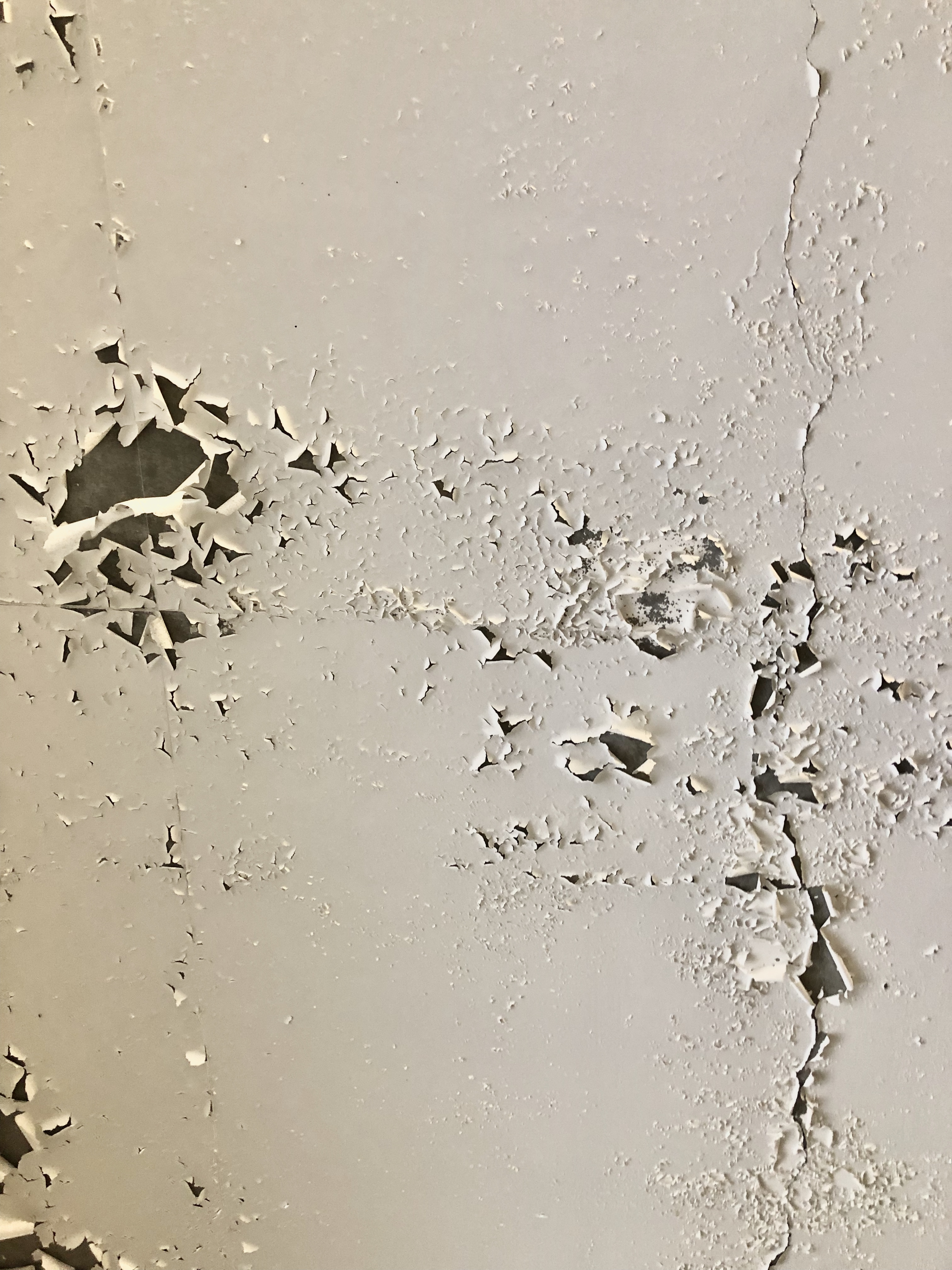 Paint falling off of a ceiling